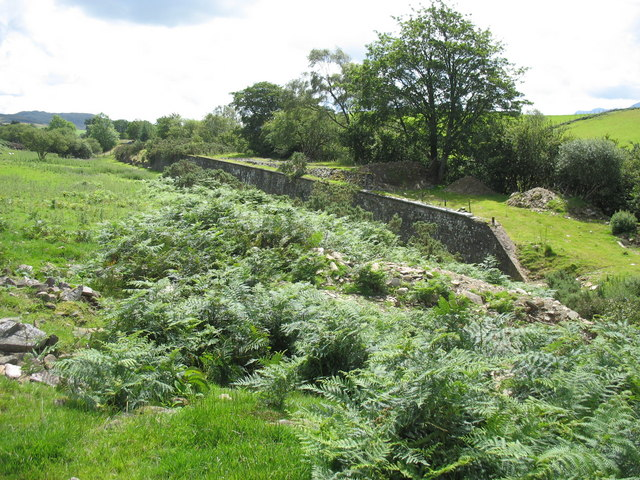 The former military railway station at Trawsfynydd. This was located a little way to the north of Trawfynydd station and was used by the army to handle men, horses and artillery. The artillery range closed in the late 1950s and the station was than abandoned. The section of the line between Bala and Llandudno Junction south of the Trawsfynydd Nuclear Power Station was dismantled in the early 1960s. The platform of the military station is well preserved.